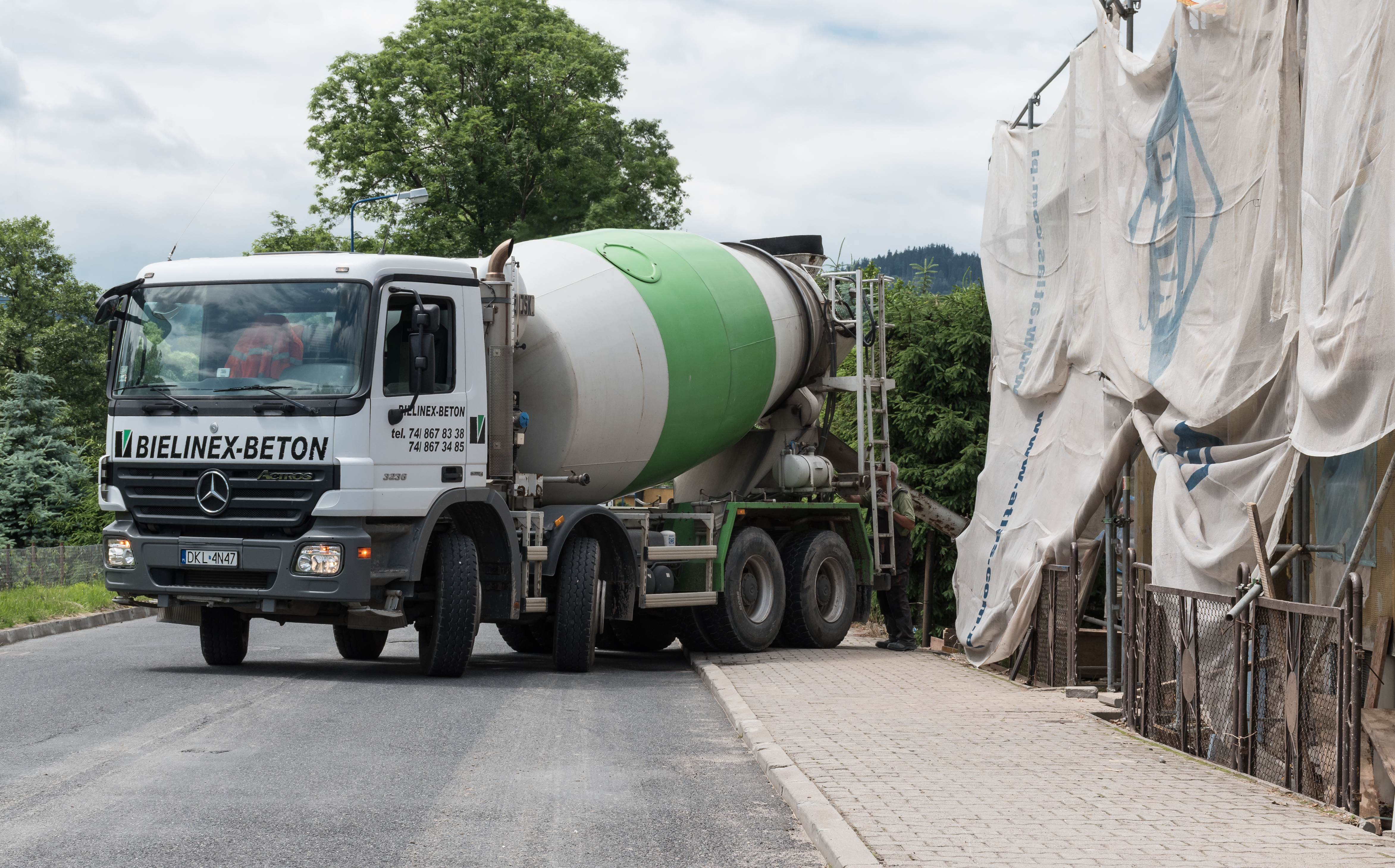 Cement mixer truck Mercedes-Benz Actros 3236